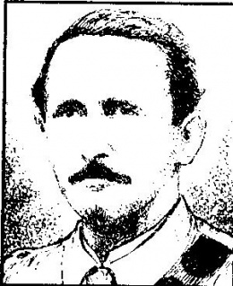 José_de_Jesús_Pérez_de_la_Guardia